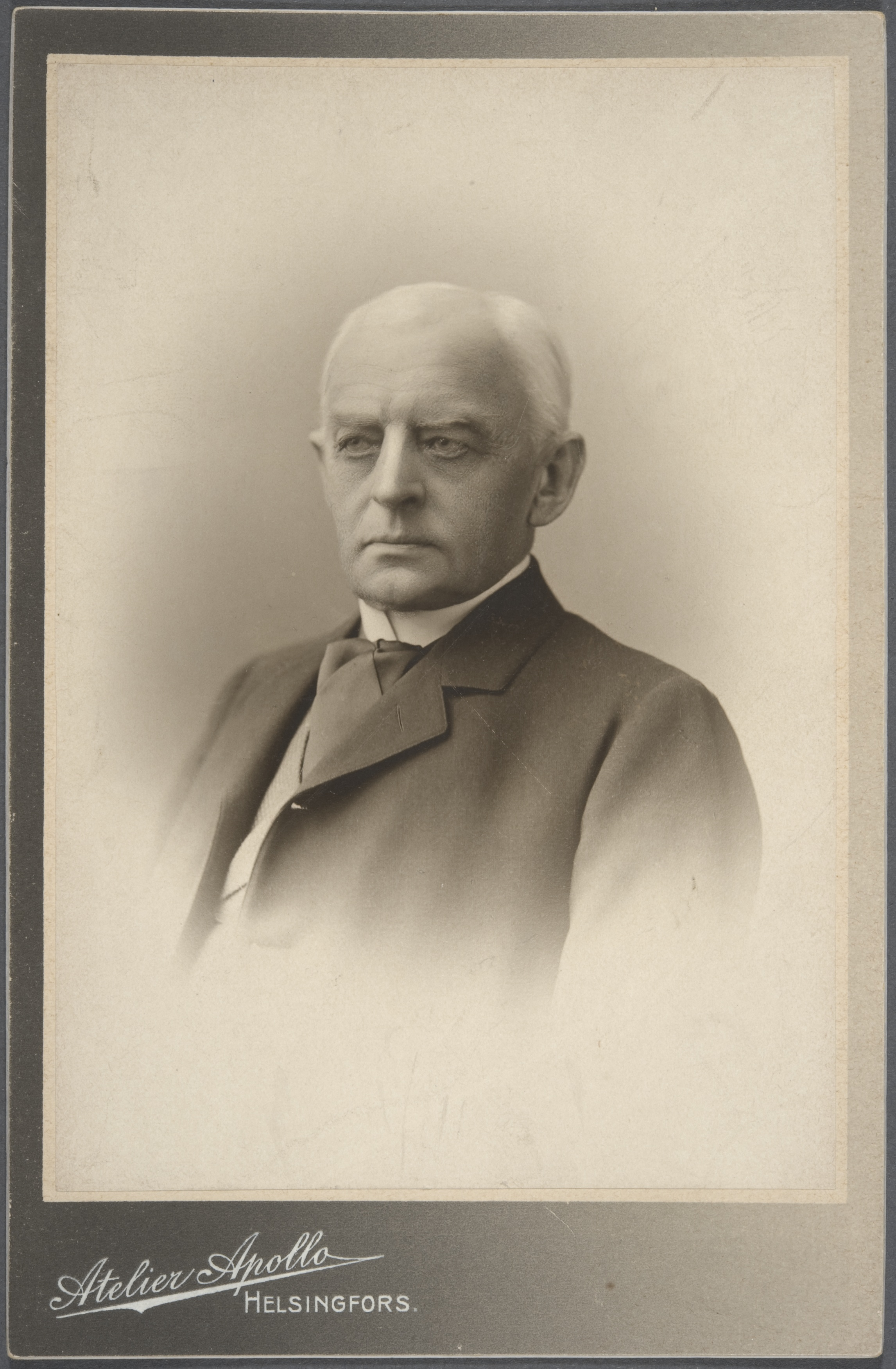 Photograph of the Finnish lawyer Werner Woldemar Söderhjelm (1832–1904).